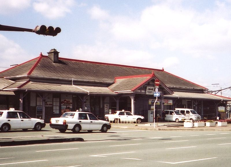 JR Kami-Kumamoto Station(2004)